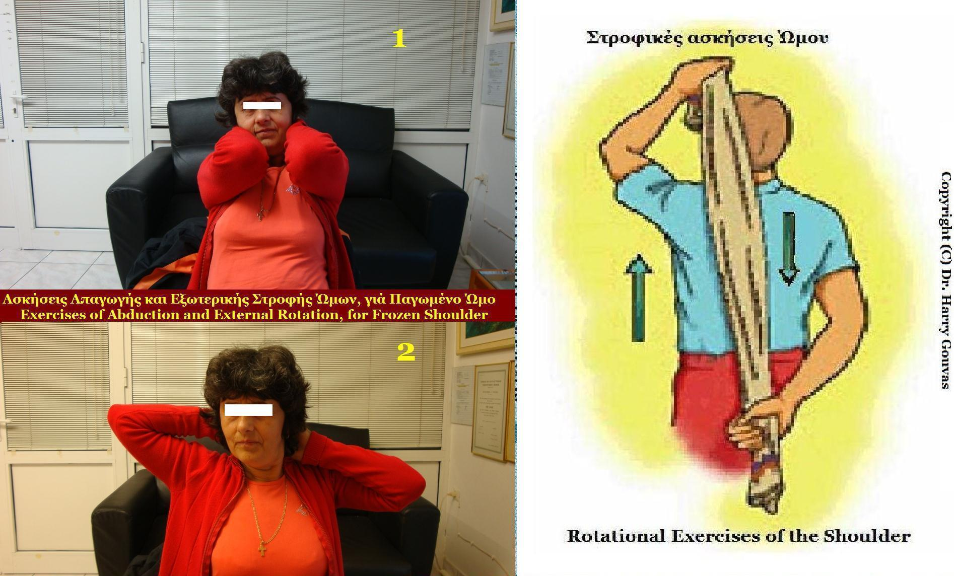 Shoulder exercises